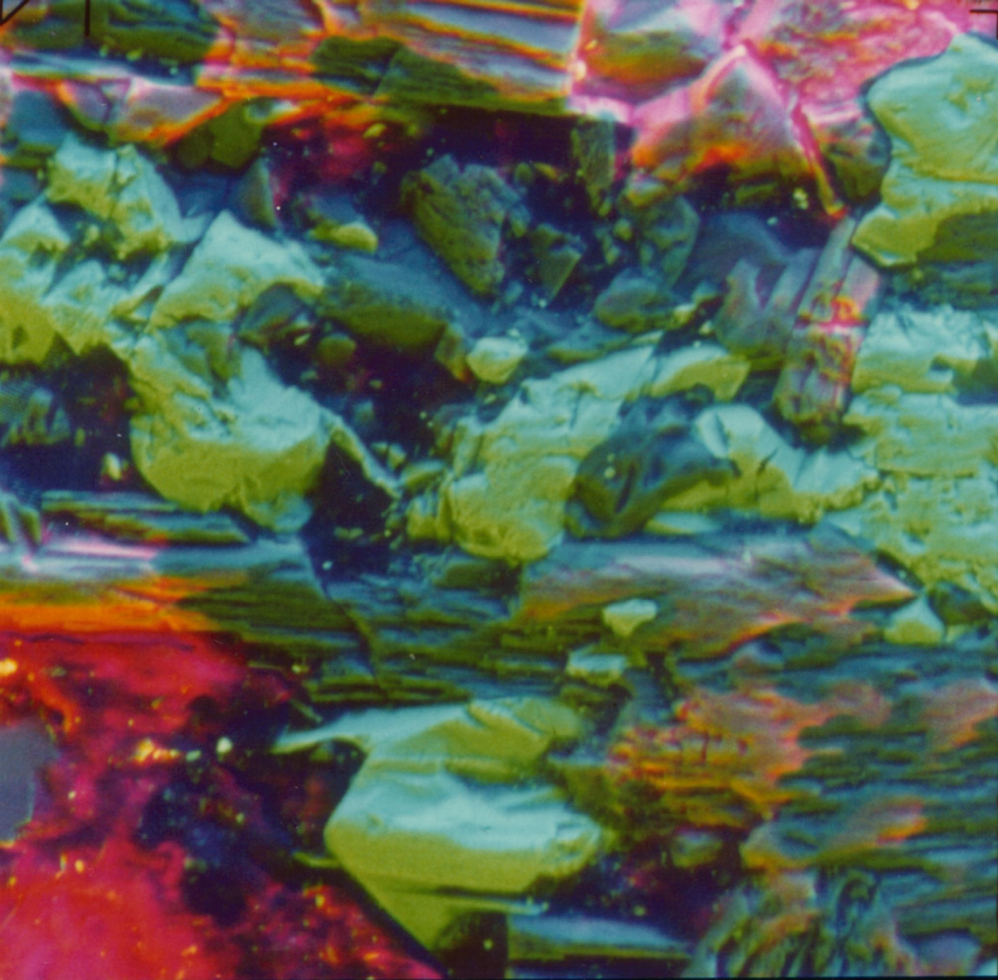 Aluminium/iron/silicon mineral with other impurities and surface contaminants imaged in an ESEM by the use of two (A and B) symmetrical plastic scintillating backscattered electron detectors and the gaseous detector device (GDD): Color was obtained by superimposing three images, namely, A+B, A-B and GDD through red, green and blue filters, resulting in sharp topographic and material contrast. Field width=93 microns, 10 kV, 200 pA, 10 Pa pressure. Raw signals without post-processing to remove noise.